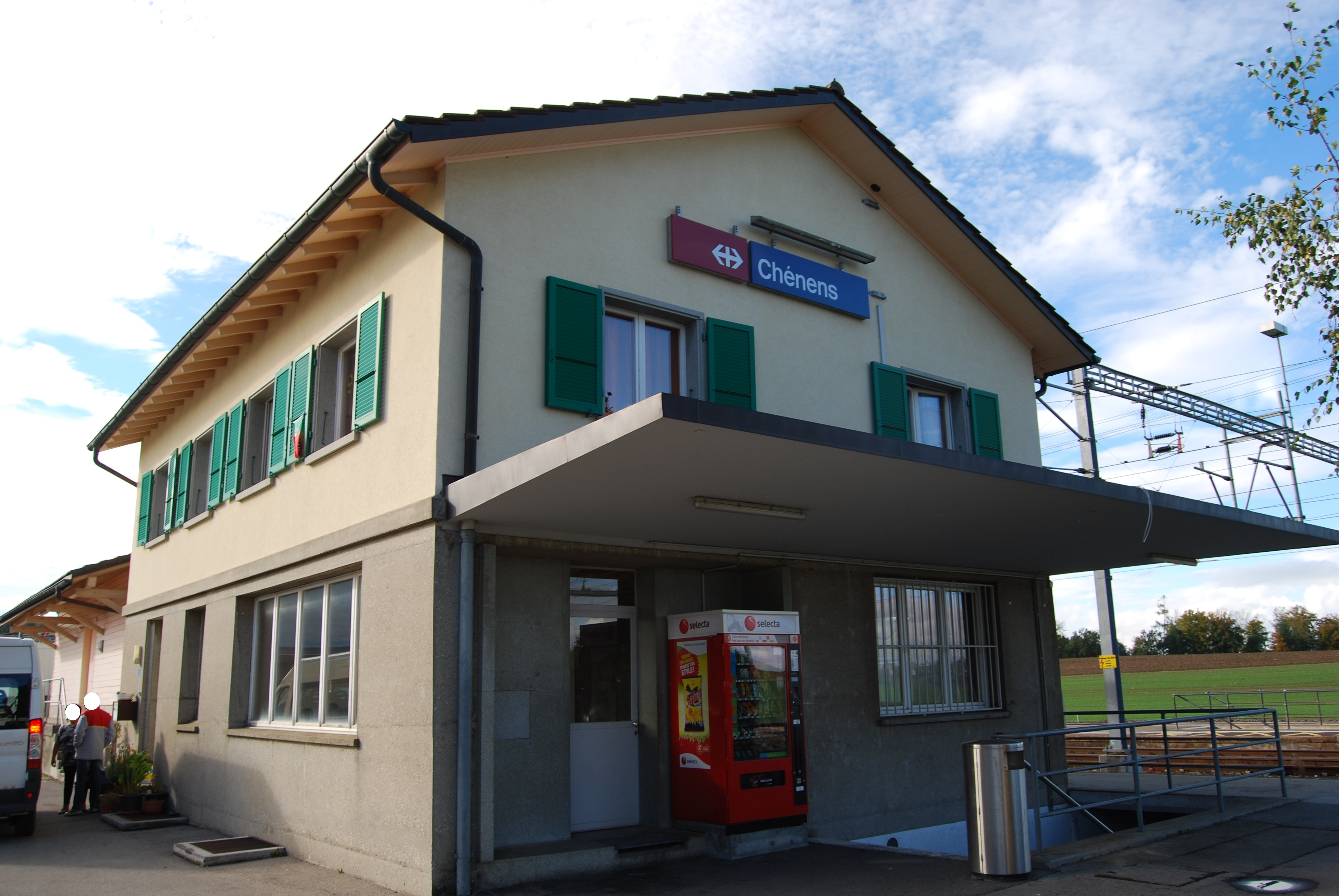 Trainstation of Chénens, Chénens, canton of Fribourg, Switzerland